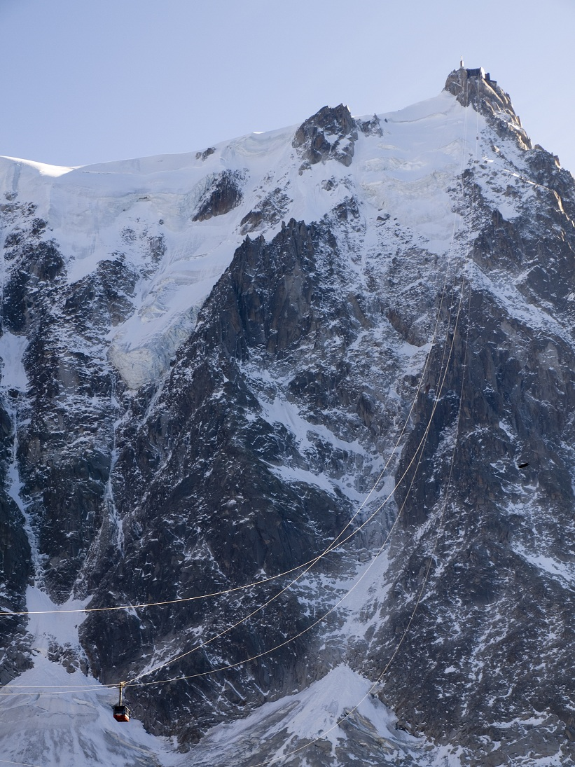 The top of Aiguille du Midi as seen from Plan de l'Aiguille. In the left you can see a cable car going to the top